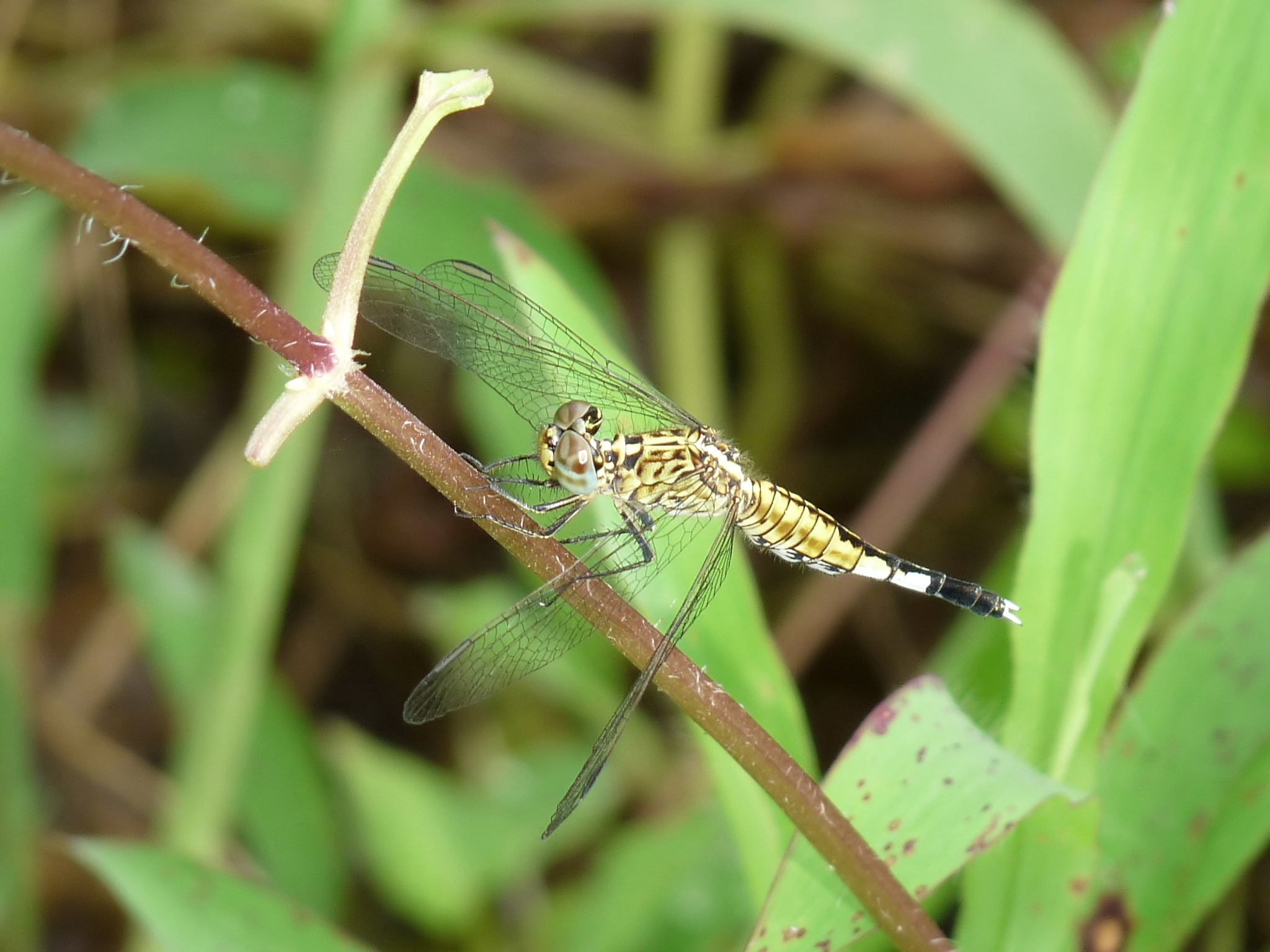 Acisoma panorpoides, female Acisoma panorpoides, the Grizzled Pintail or Trumpet Tail, is a species of dragonfly in family Libellulidae. It is small blue dragonfly with bulged abdomen, closely associated with water, commonly found among reeds in ponds and tanks. The male adult has blue marking but the female has yellow marking. The species has a very weak and short flight. Breeds in marshes associated with tanks and ponds. Taken at Kadavoor, Kerala, India.